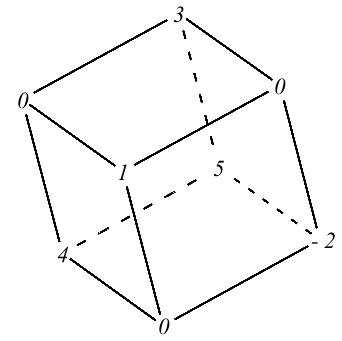 An example of a Bhargava cube with specific integers ate the eight corners of the cube.